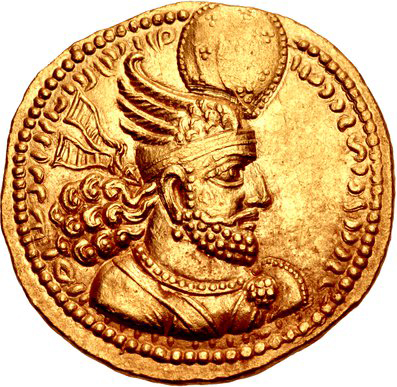 Coin of Bahram II, Herat mint.